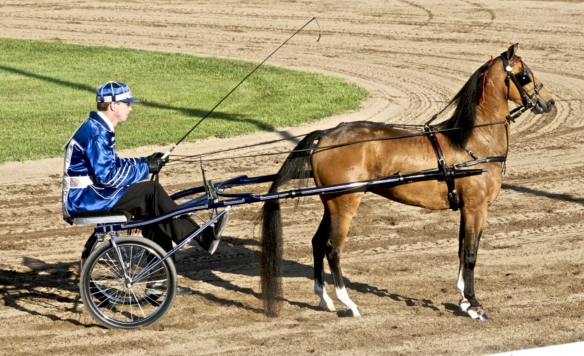 Posted as an American Saddlebred, but is too small, more likely a pony roadster